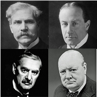 Images of Ramsay MacDonald, Stanley Baldwin, Neville Chamberlain and Winston Churchill.